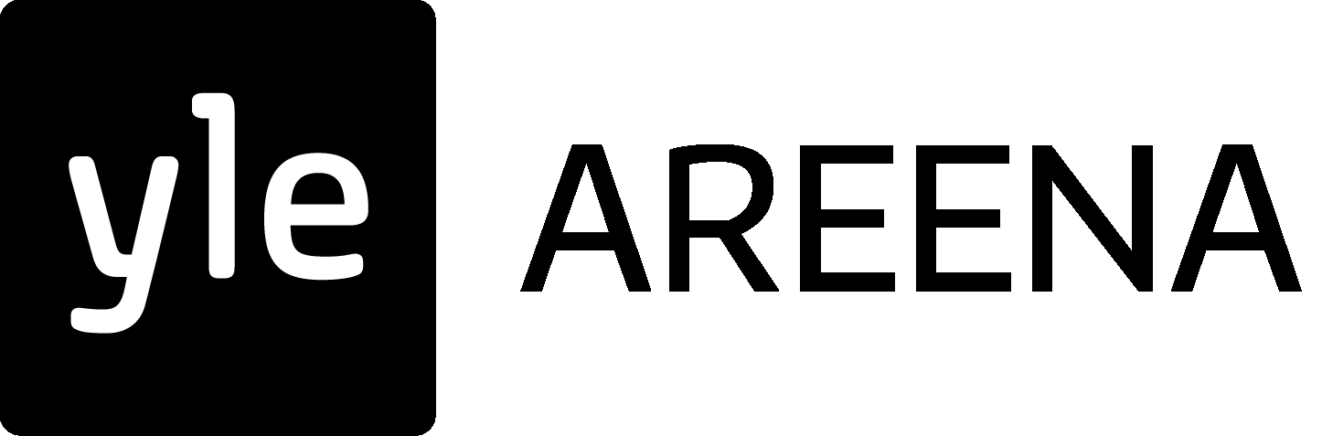 Yle Areena´s logo